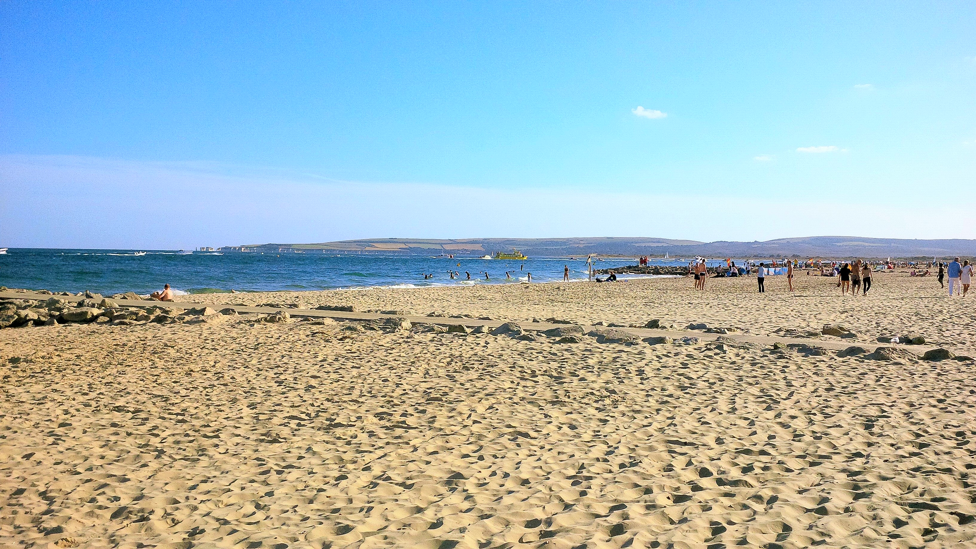 Sandbanks beach (August 2013).